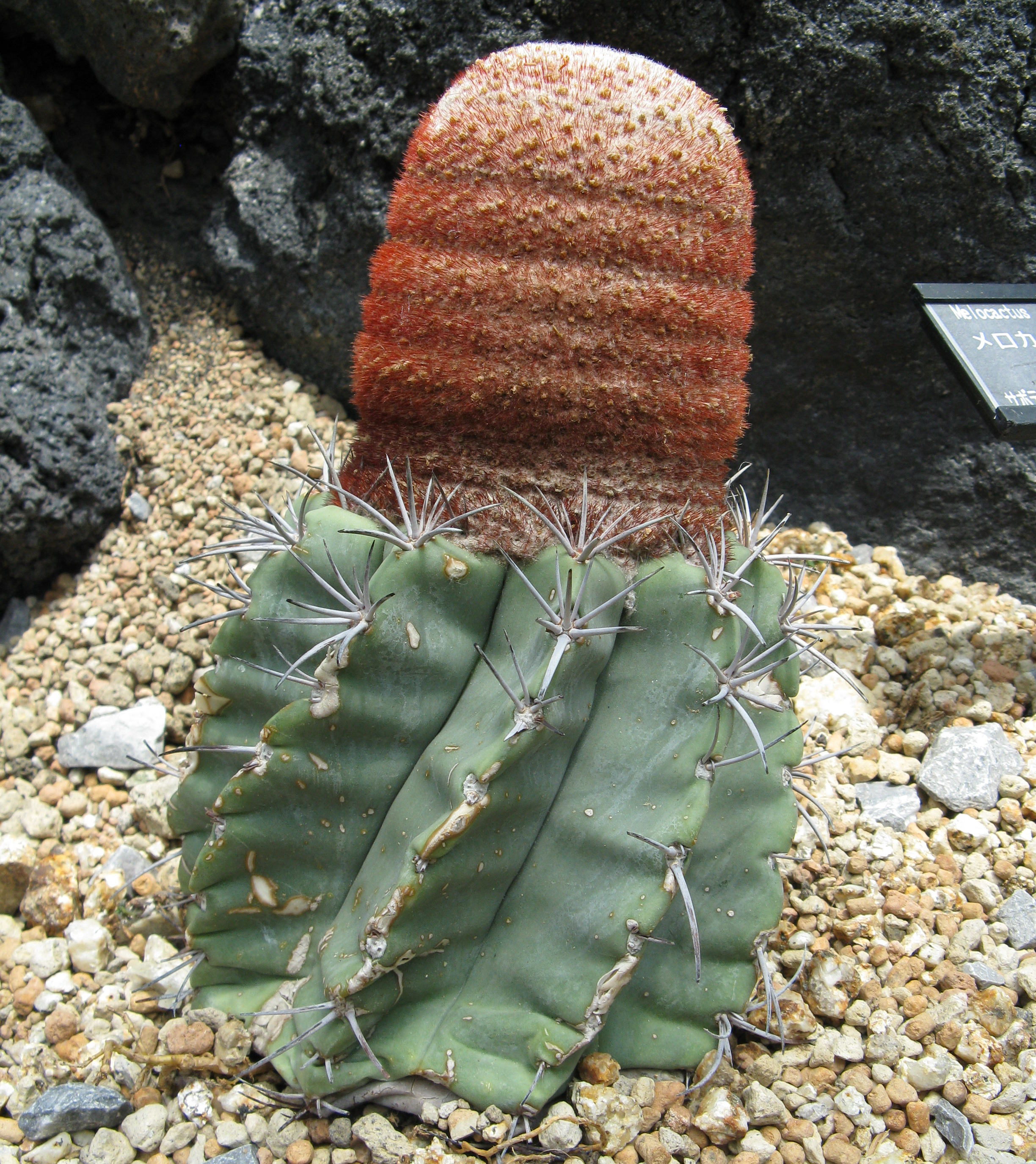 Scientific name Melocactus glaucescens Place:Sakuya Konohana Kan,Osaka,Japan